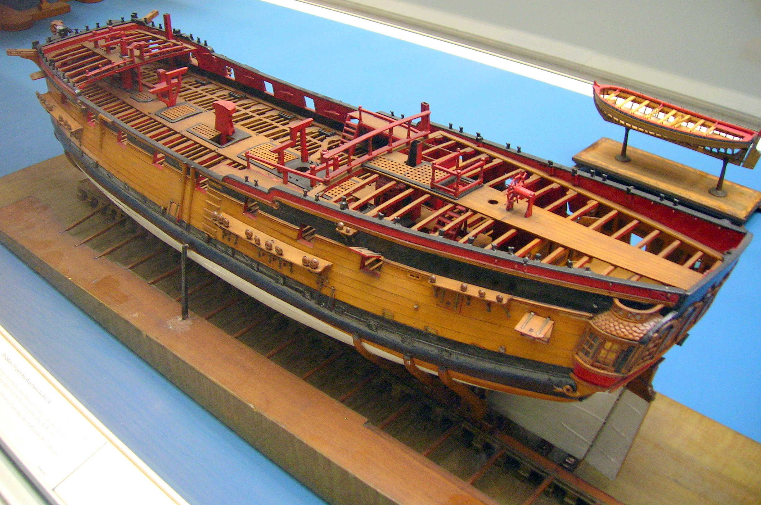 Model of Dolphin, a 20-gun ship launched in 1731 converted into a fireship in 1747, then back in 1757, and captured by the French in 1760. Port side is 20-gun, starboard side is fireship.